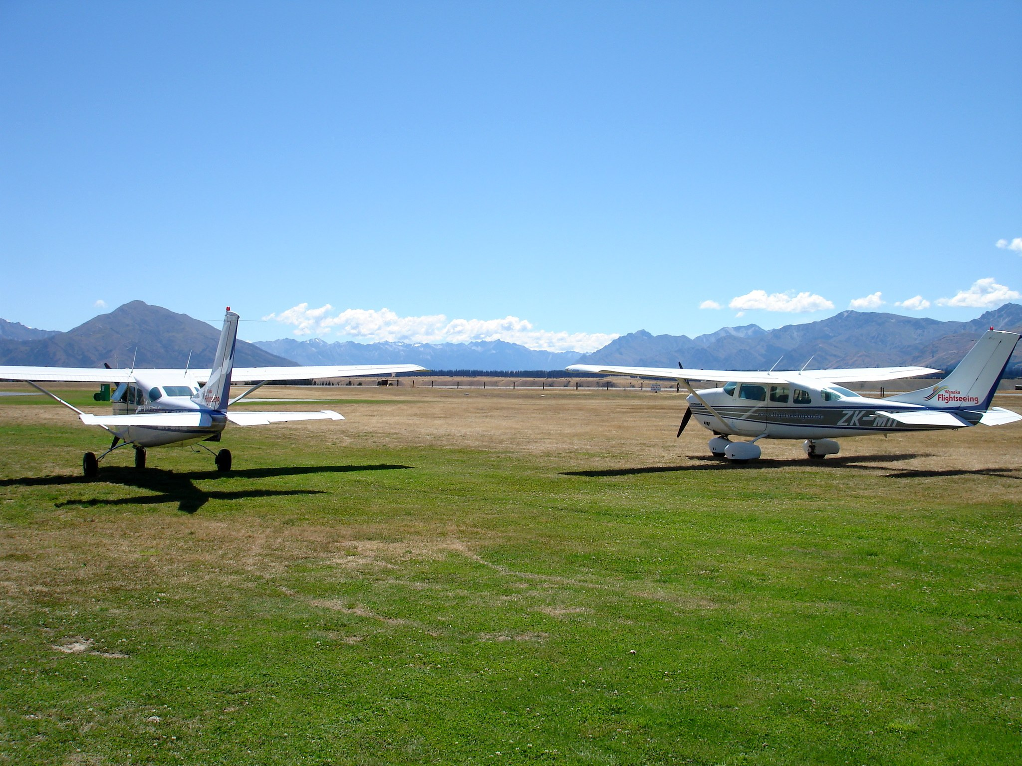 Wanaka Airport, New Zealand (Flight to Milford Sound)